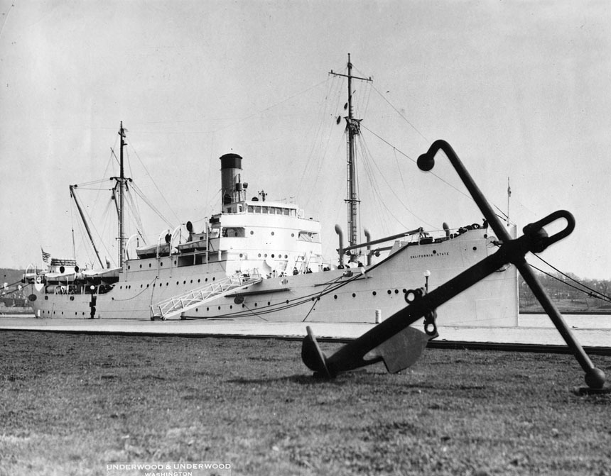 TS California State moored at Washington Navy Yard, 7 April 1932, after a cruise around South America from her home station on the West Coast. While at Washington this newly-converted Merchant Marine training ship was to be inspected by government officials and her crew was to be received by President Hoover.